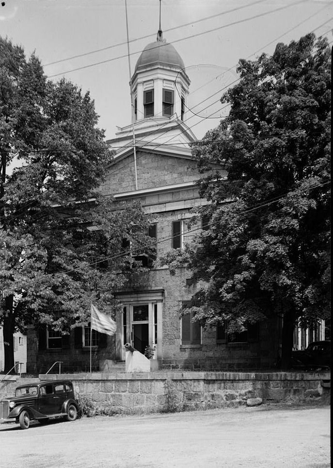 istoric American Buildings Survey E. H. Pickering, Photographer August 1936 - Howard County Courthouse, Court Avenue, Ellicott City, Howard County, MD